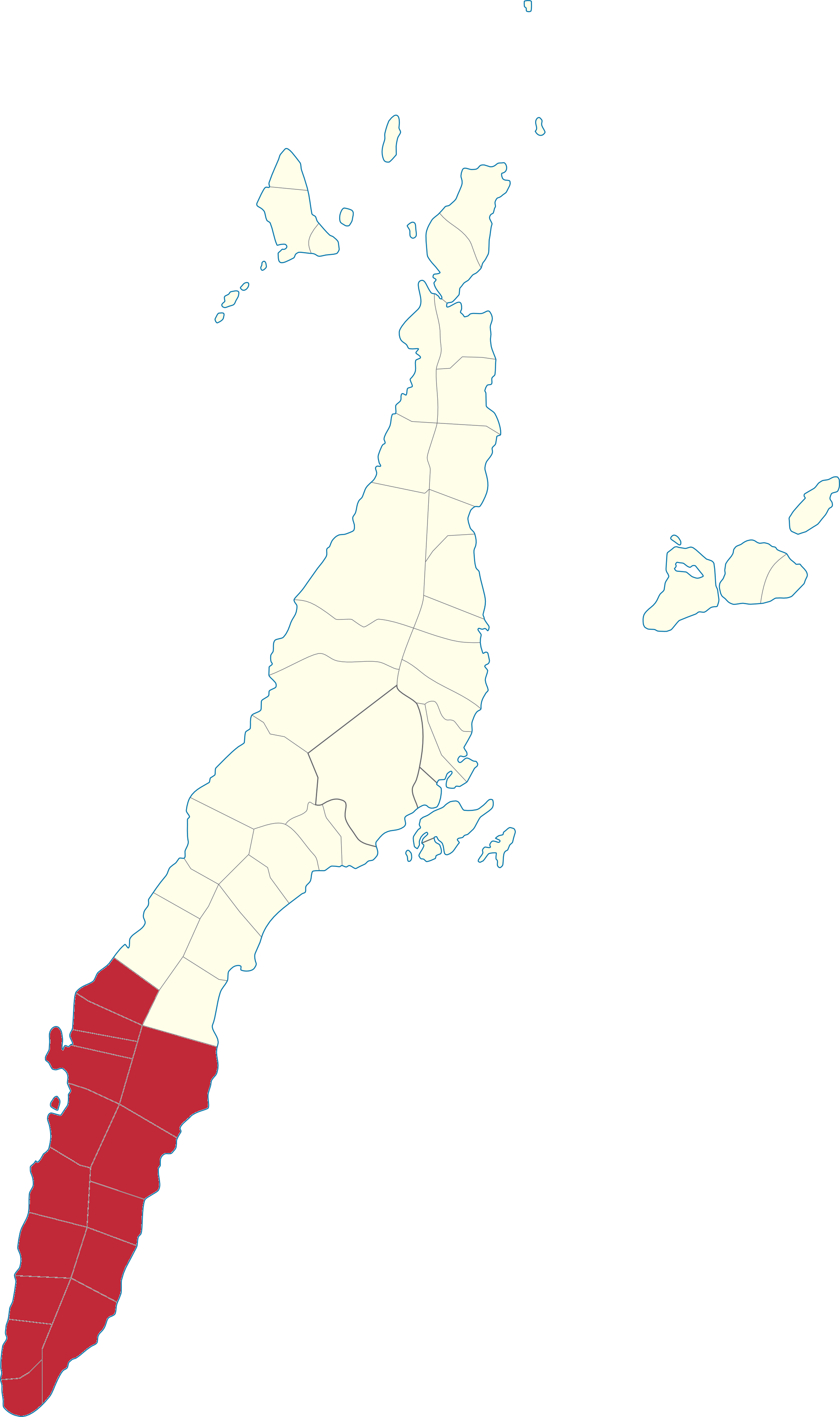 Location of 2nd Legislative district of Cebu, Philippines